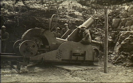 AWM caption : "Italy. c. 1918. An Italian Army mortar, possibly 280mm Model 9, in position ready for action." Comment : this is actually an Italian Mortaio da 210/8 D.S., a 21 cm siege howitzer.